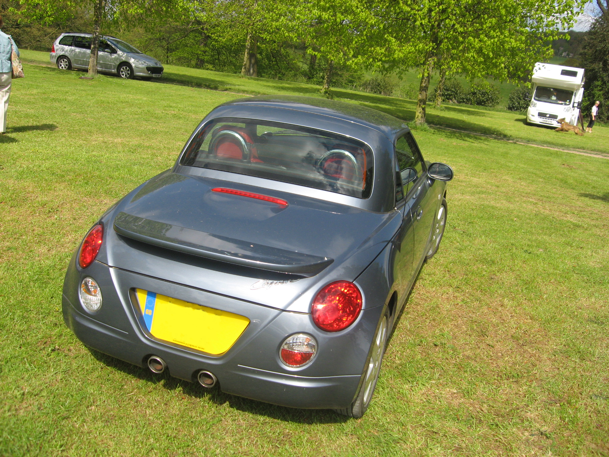 Rear view of Daihatsu Copen